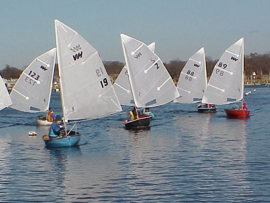 White Horse Dinghies Frosbiting in Bullocks Cove, RI